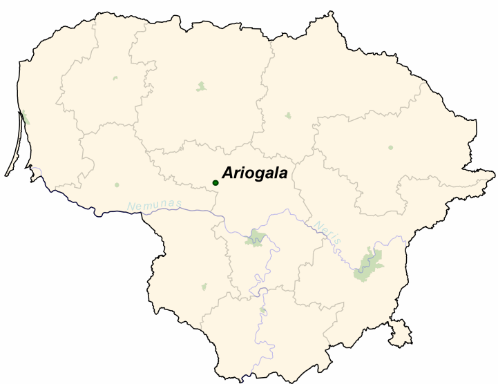 Ariogala on the map of Lithuania